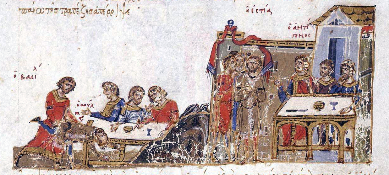 Victory of Basileios I over a Bulgarian in wrestling match